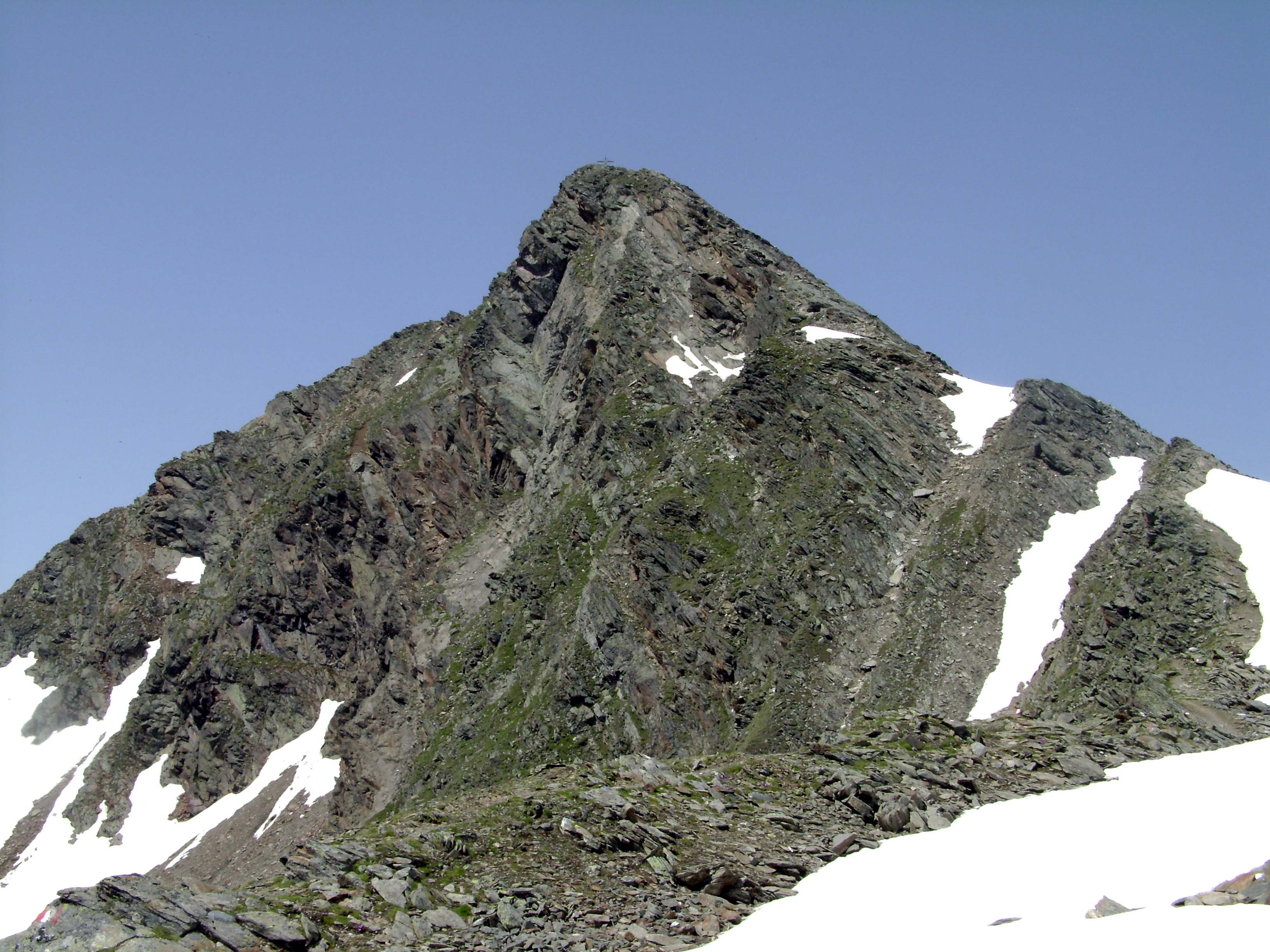 Summit of Zischgeles from East